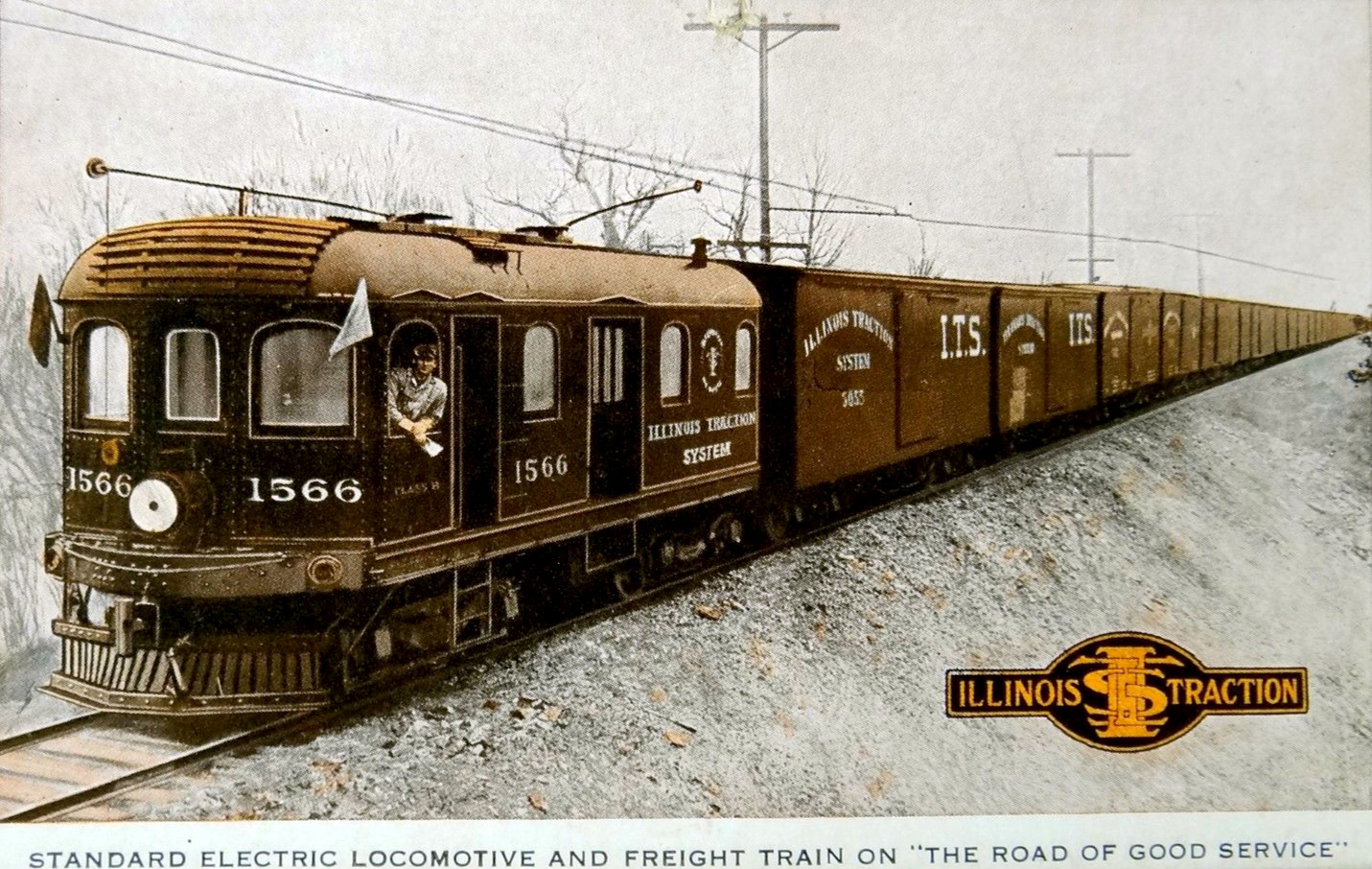 Postcard photo of a freight train on the Illinois Traction System.